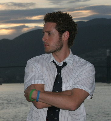 Paulo Costanzo